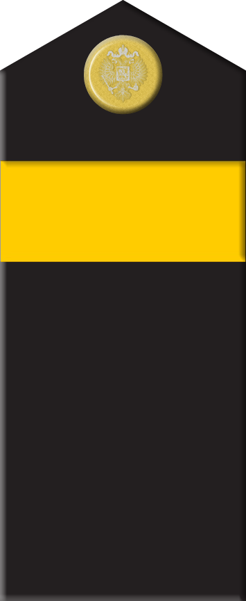 Rank insignia of the Imperial Russian Navy until 1917, "Bootsmann" .